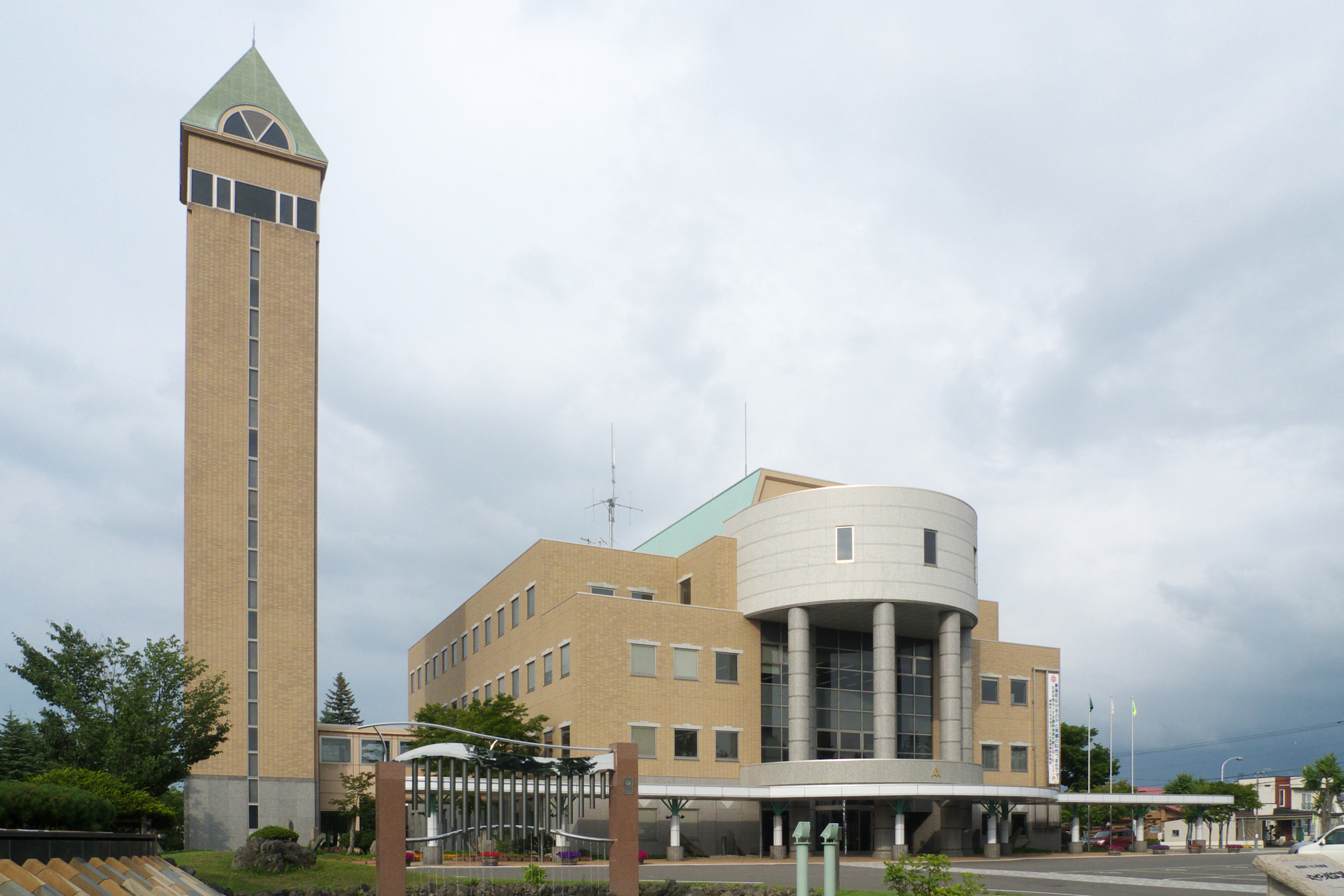 Town Hall of Biei, Hokkaido, Japan